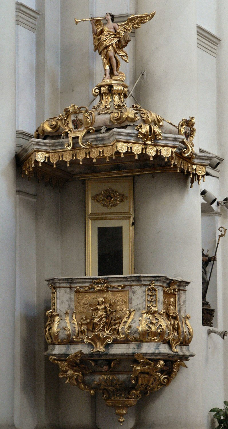 Ljubljana. Ursuline Church. Pulpit